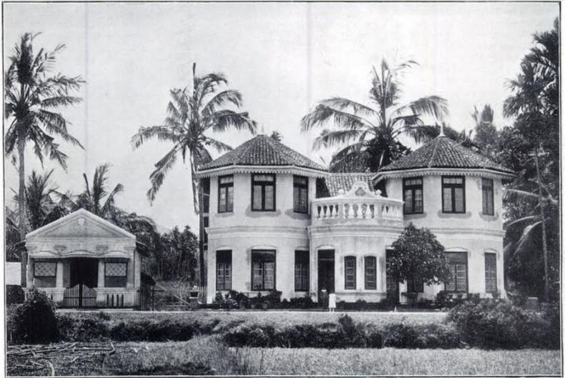 The Piya Niwasa, residence of the D.C. kotalawala. (Twentieth century impressions of Ceylon : its history, people, commerce, industries, and resources. edited by Arnold Wright. Page no 584)